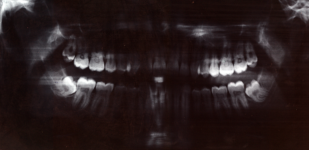 An orthopantomogram showing 4 nascent wisdom teeth.